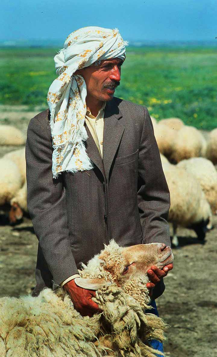 A Tunisian man restrains his sheep.